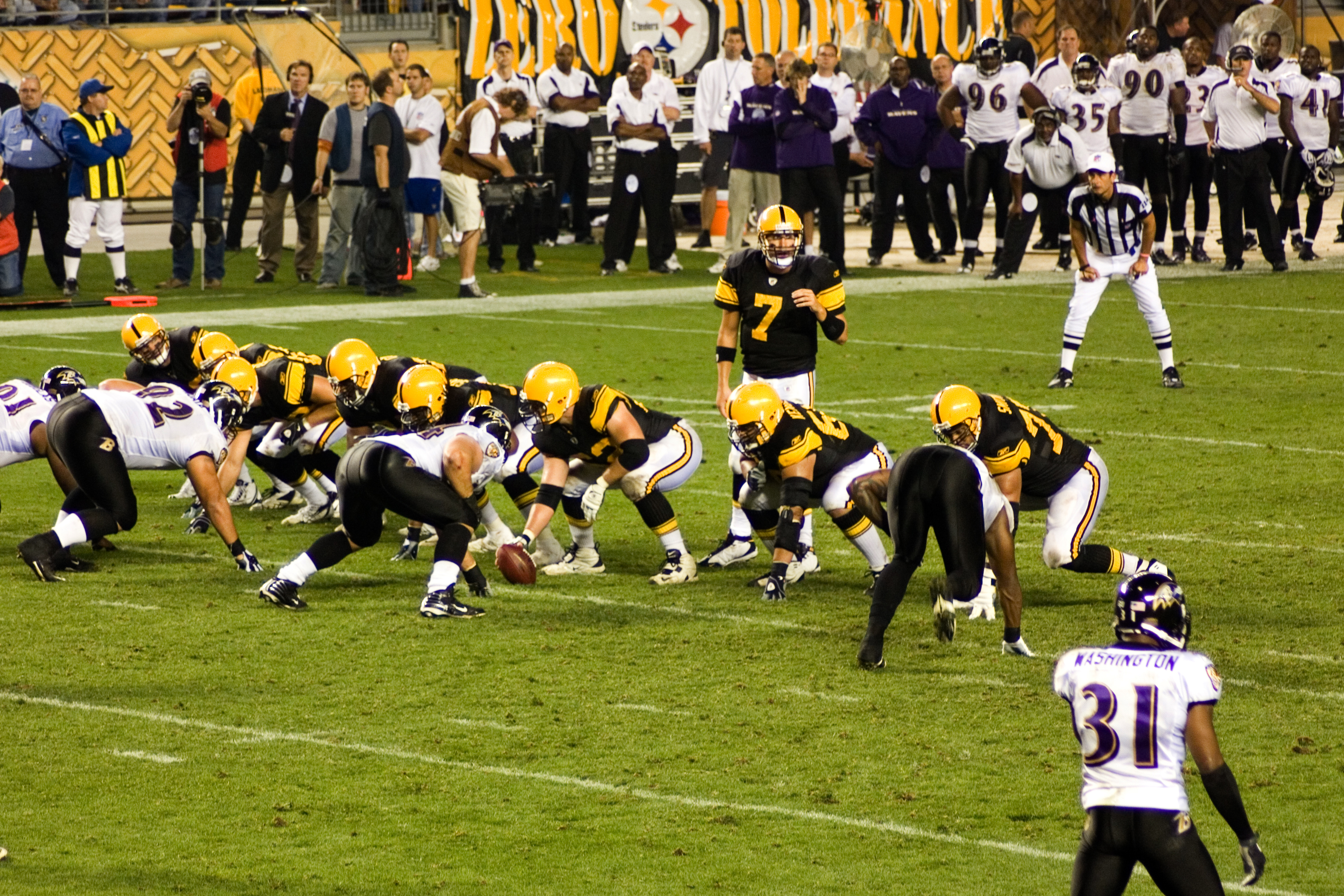 The Pittsburgh Steelers lineup against the Baltimore Ravens